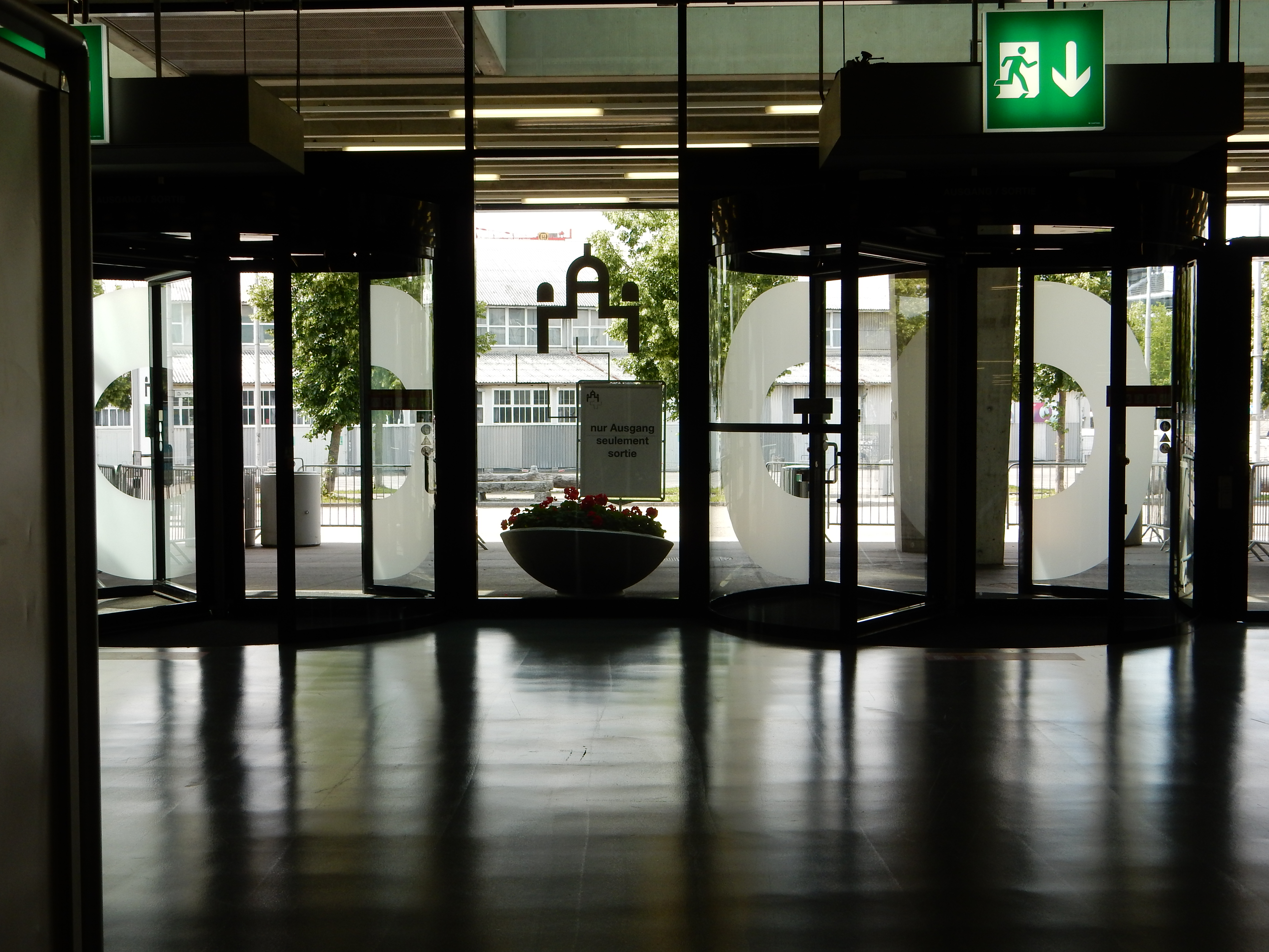 Sessions of the Swiss Federal Assembly during the COVID-19 pandemic